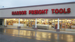 This is the first Harbor Freight Tools store in Louisville, KY.